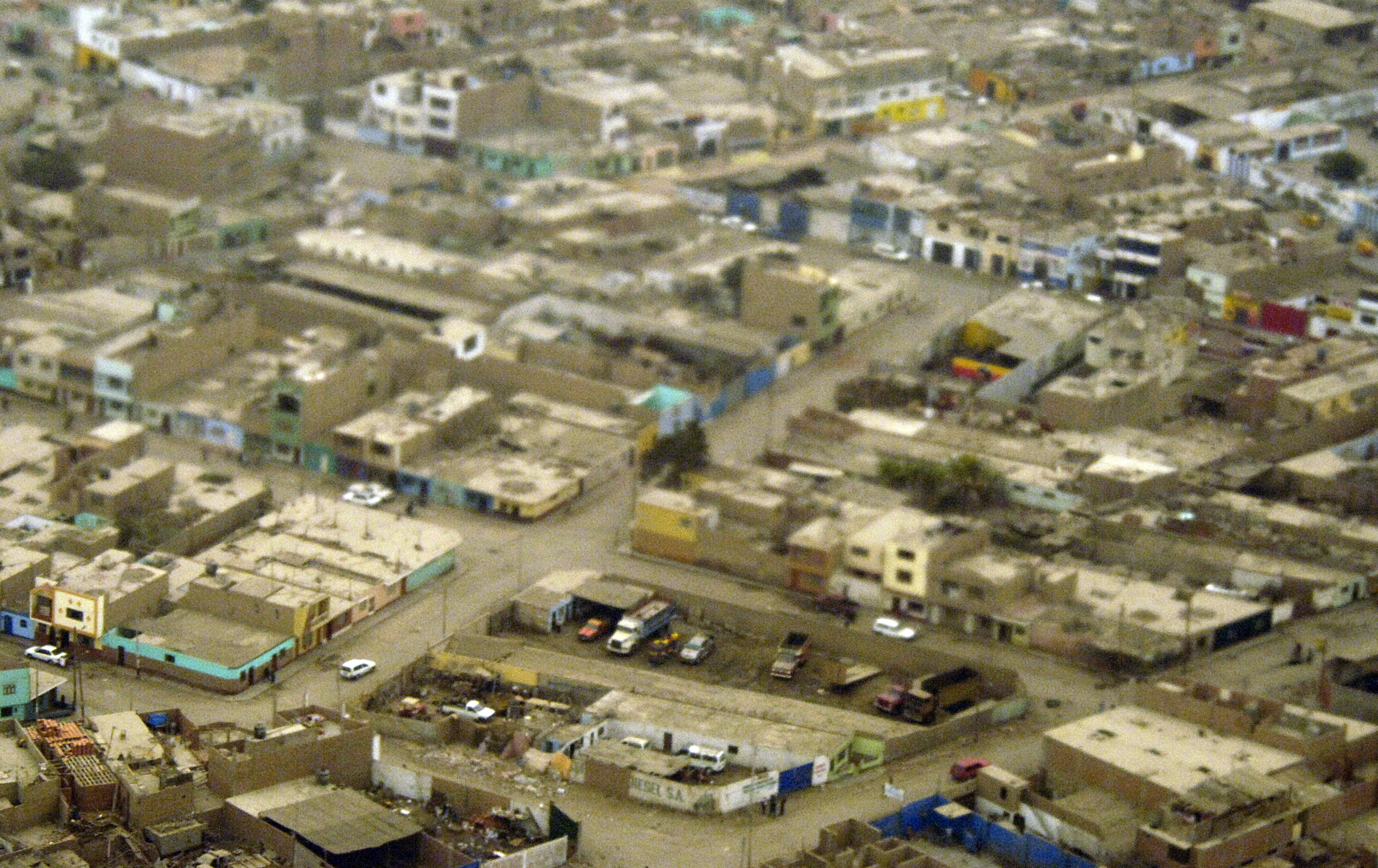 An aerial view of Pisco, Aug. 18. About 80 percent of the homes were destroyed and hundreds were killed.